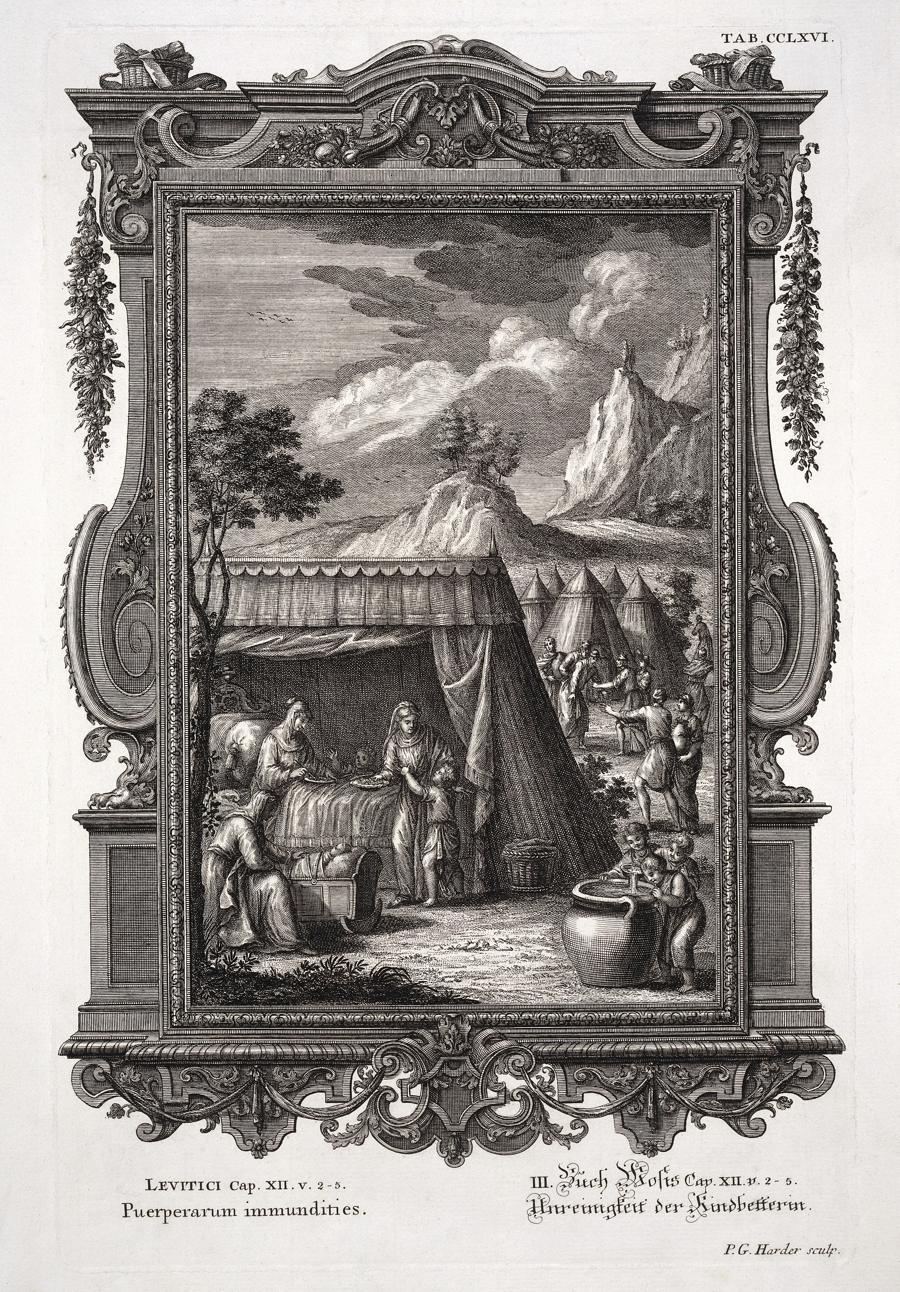 Etching illustrating the uncleanliness of the mother after giving birth, according to Jewish law. The Bible, Leviticus, XII, 2-5: the text states that a mother should be considered unclean for 40 days after giving birth to a boy and for 80 days after giving birth to a girl. The scene shows a mother in bed eating a meal, surrounded by women and children. Her baby is rocked in a crib. In the foreground, three children ladle water from a jar. In the background is a tented community. Iconographic Collections Keywords: Family; Mothers; Child; Johann Jakob Scheuchzer; Motherhood; Philipp Gottfried Harder; Mother; Childbirth; Children; Parturition; Tent